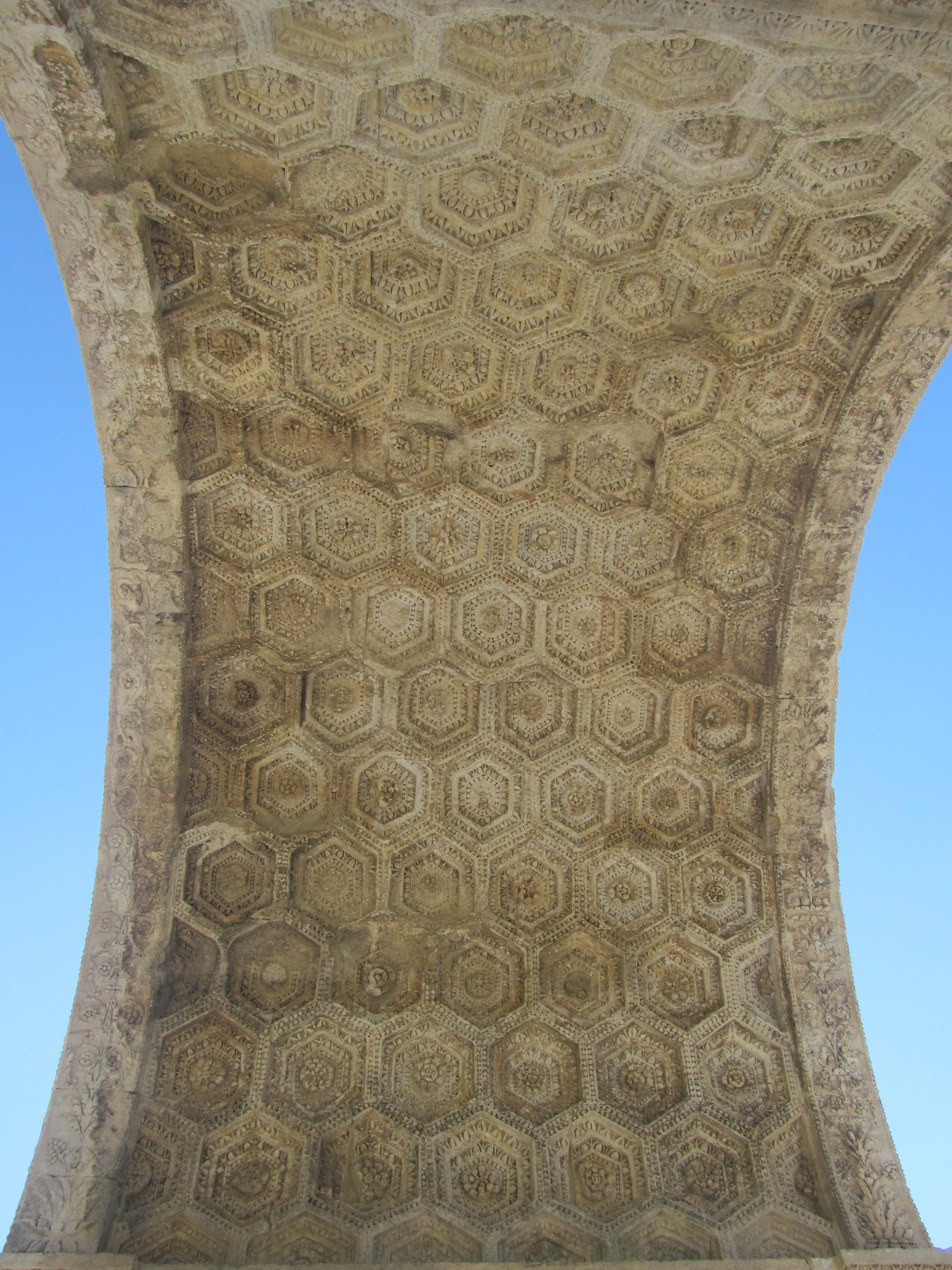 Glanum - Coffer Ceiling of Triumphal Arch